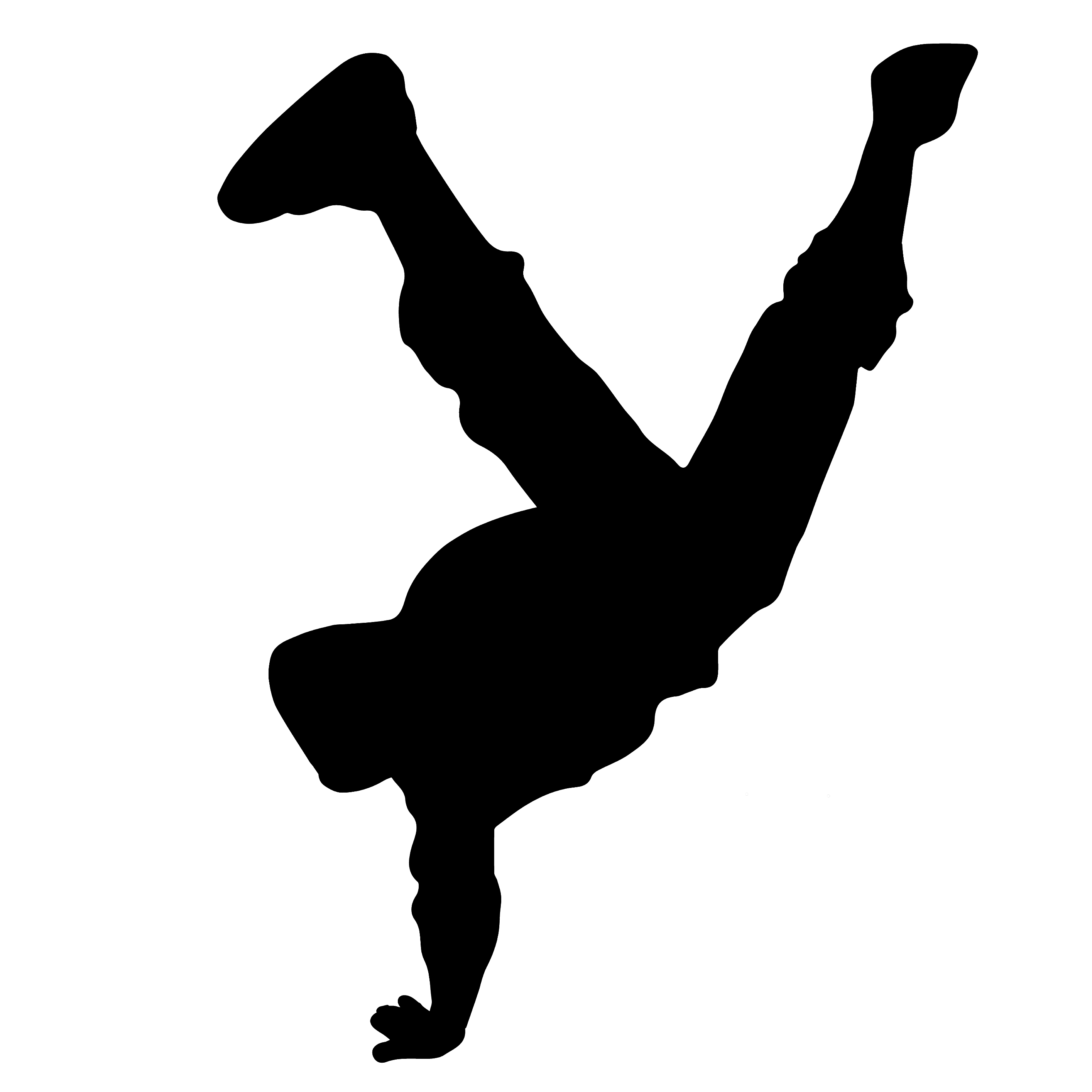 The picture is a silhouette of a break dancer.